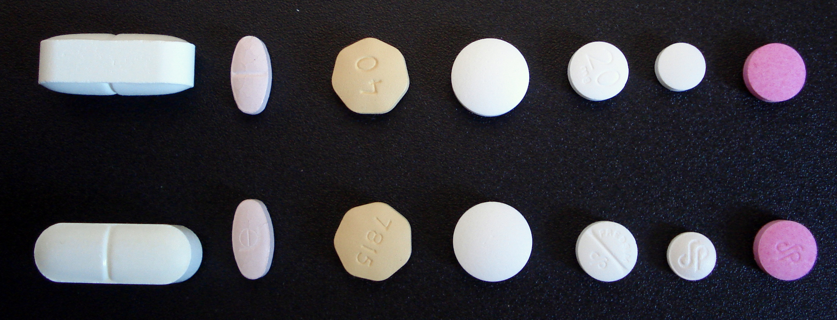 Pills.